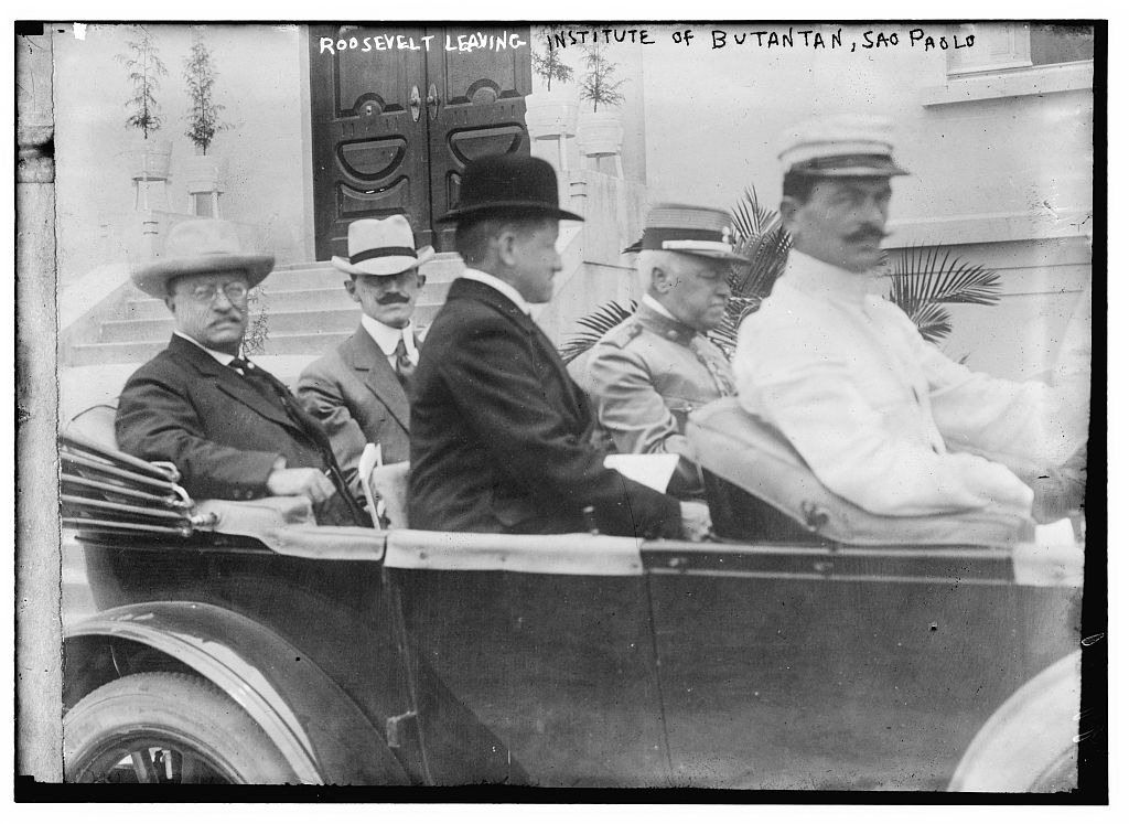 Theodore Roosevelt in automobile outside the Institute of Butantan in 1914, Sao Paolo, Brazi, Bain News Service, publisher. Institute of Butantan, Sao Paolo, Brazil [between ca. 1910 and ca. 1915] 1 negative : glass ; 5 x 7 in. or smaller. Notes: Title from unverified data provided by the Bain News Service on the negatives or caption cards. Forms part of: George Grantham Bain Collection (Library of Congress). Subjects: Sao Paulo Format: Glass negatives. Repository: Library of Congress, Prints and Photographs Division, Washington, D.C. 20540 USA, General information about the Bain Collection is available at Persistent URL: Call Number: LC-B2- 2975-1